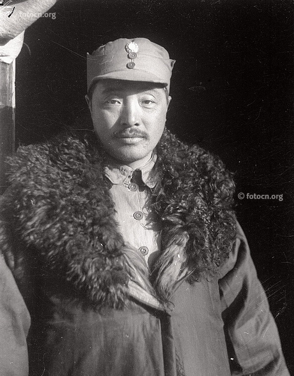 He Long in NRA uniform